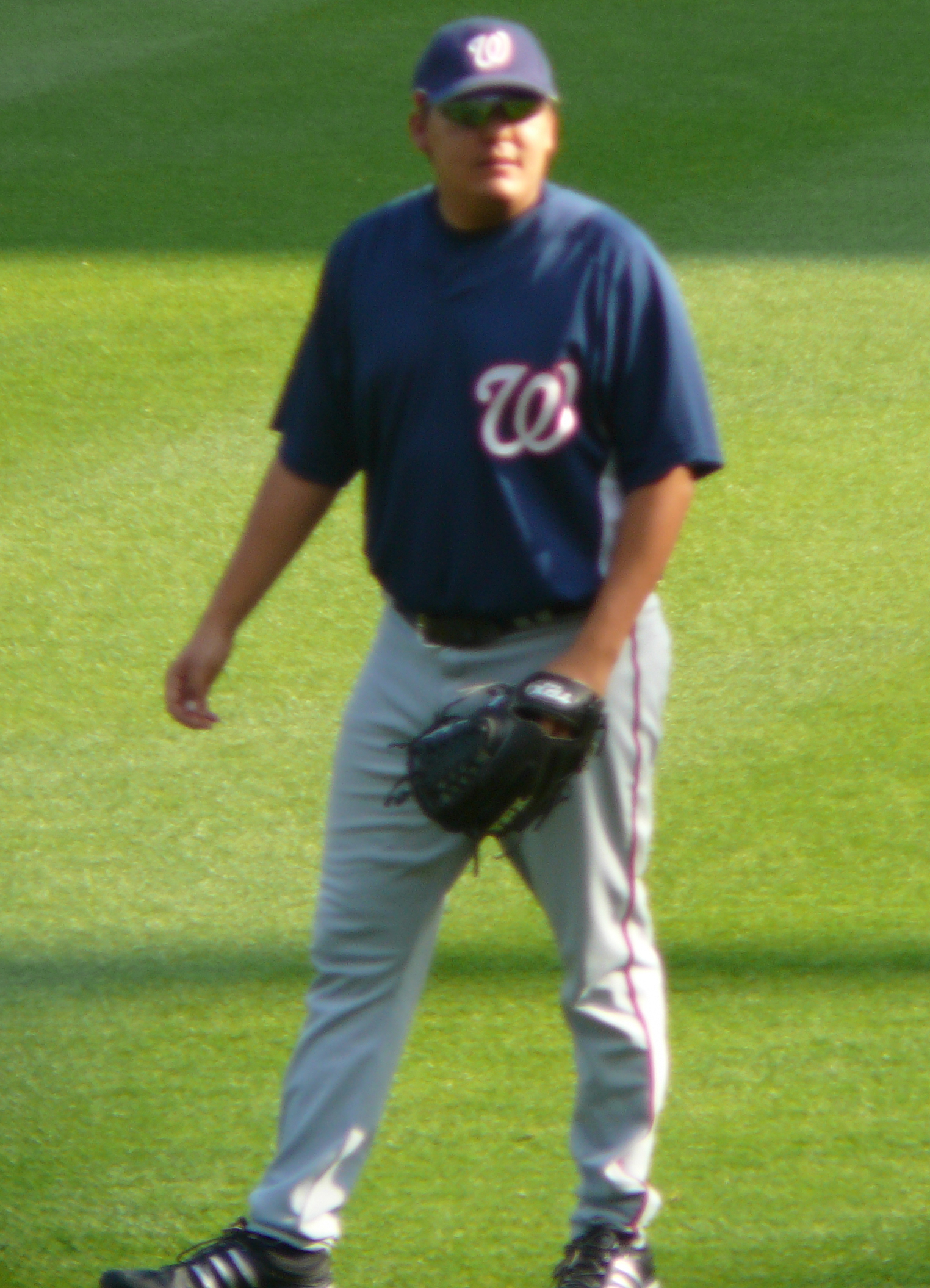 User:Chrisjnelson agreed to license this image of Chad_Cordero2.jpg under a free attribution license. Any use of this image must be attributed; this means that Photo by :en:User:Chrisjnelson|Chris Nelson should be in the picture caption. 01:26, 24 April 2008 . . Chrisjnelson . . 1,524×2,111 (2.07 MB)